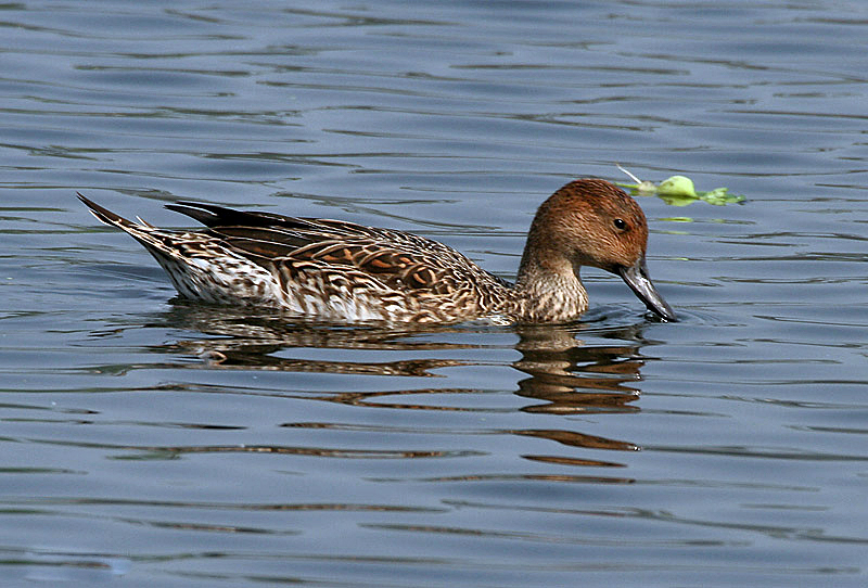 Northern Pintail (Anas acuta) in Kolkata, West Bengal, India.